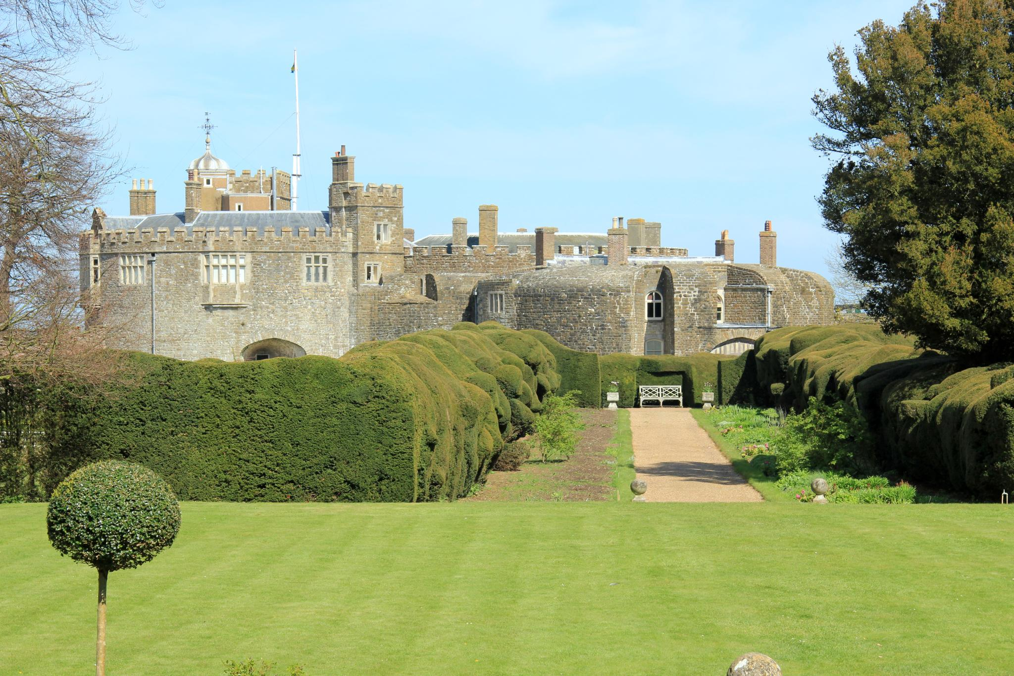 Built during the reign of King Henry VIII, Walmer Castle is one of the most fascinating visitor attractions in the South East. Originally designed as part of a chain of coastal artillery defences it evolved into the official residence of the Lord Warden of the Cinque Ports. The Duke of Wellington held the post for 23 years and enjoyed his time spent at the castle and in recent years Her Majesty Queen Elizabeth the Queen Mother made regular visits to the castle. The armchair in which Wellington died and an original pair of 'Wellington boots' along with some of the rooms used by the Queen Mother are among the highlights. And with the magnificent gardens, a woodland walk and some excellent bird spotting there's something for everyone to enjoy. There is also a pleasant cycle path along the beach front to nearby Deal Castle.